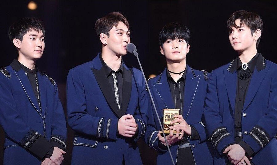 receive Discovery of the Year at 2017 MAMA in japan